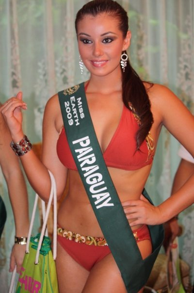 Miss Earth 2009 Press Presentation last November 4, 2009 in Valle Velarde 6, Pasig City, Philippines.